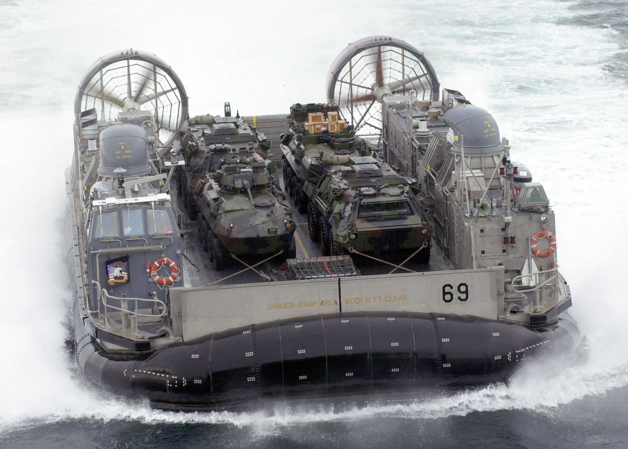 At sea aboard USS Kearsarge (LHD 3) Jan. 13, 2003 -- A Landing Craft Air Cushion (LCAC) Vehicle from Assault Craft Unit Four (ACU-4) transports Marine Assault Vehicles to Kearsarge. ACU-4 and the Second Marine Expeditionary Brigade are embarked aboard the ship to support Operation Enduring Freedom and the war on terrorism. U.S. Navy photo by Photographer’s Mate 3rd Class Angel Roman-Otero. (RELEASED)